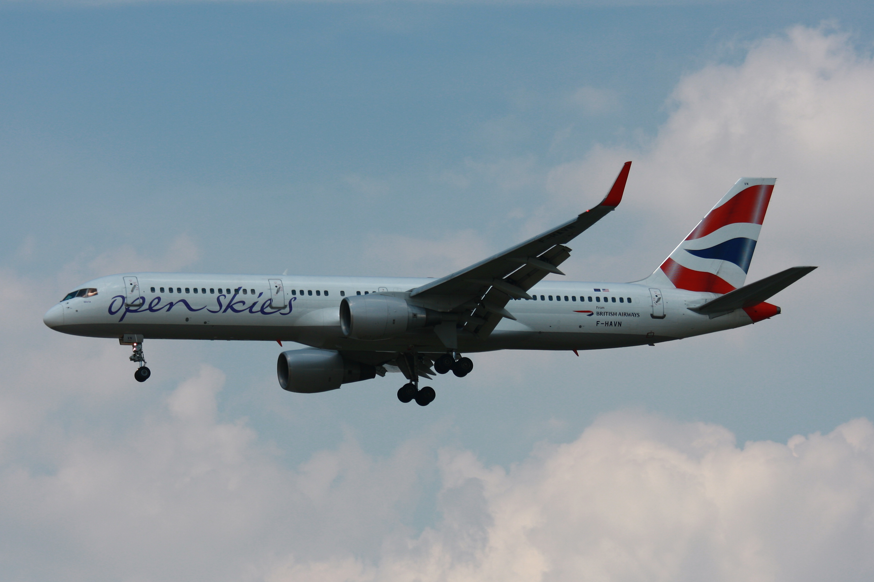 A Boeing 757-200 of OpenSkies landing at Frankfurt Airport